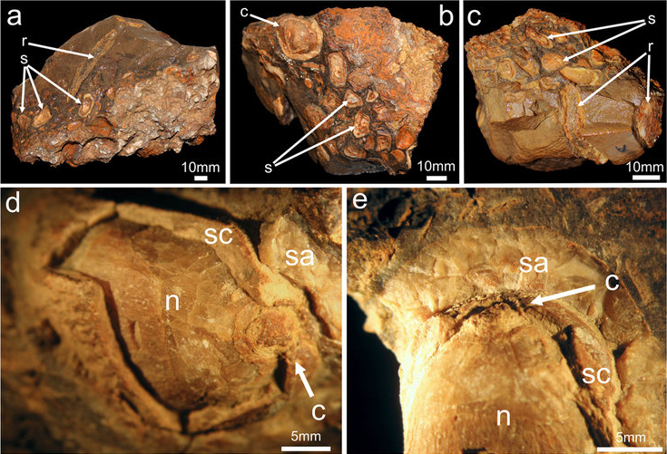 Gut content of Isaberrysaura mollensis gen. et sp. nov. (a–c), seeds of cycads (c), and other seeds (s); rib (r). (d,e) Detail of seeds of cycads: sarcotesta (sa), sclerotesta (sc), coronula (c), nucellus (n).